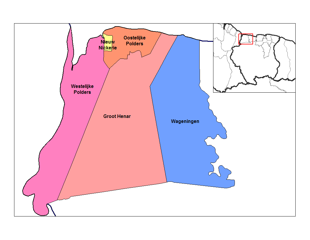 Map of the resorts of the Nickerie district in Suriname. Created by Rarelibra 22:49, 27 December 2006 (UTC) for public domain use, using MapInfo Professional v8.5 and various mapping resources. Rarelibra 22:49, 27 December 2006 (UTC)